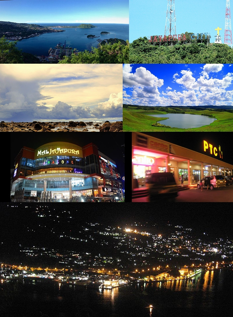 From top, left to right: Jayapura is viewed from the top of the hill, Jayapura City sign, Coral beach, Love Lake (Danau Cinta) is a heart-shaped-lake located in Emfote (Near Jayapura), the biggest mall in Jayapura (Mal Jayapura), Papua Trade Center (PTC), and Jayapura at night.